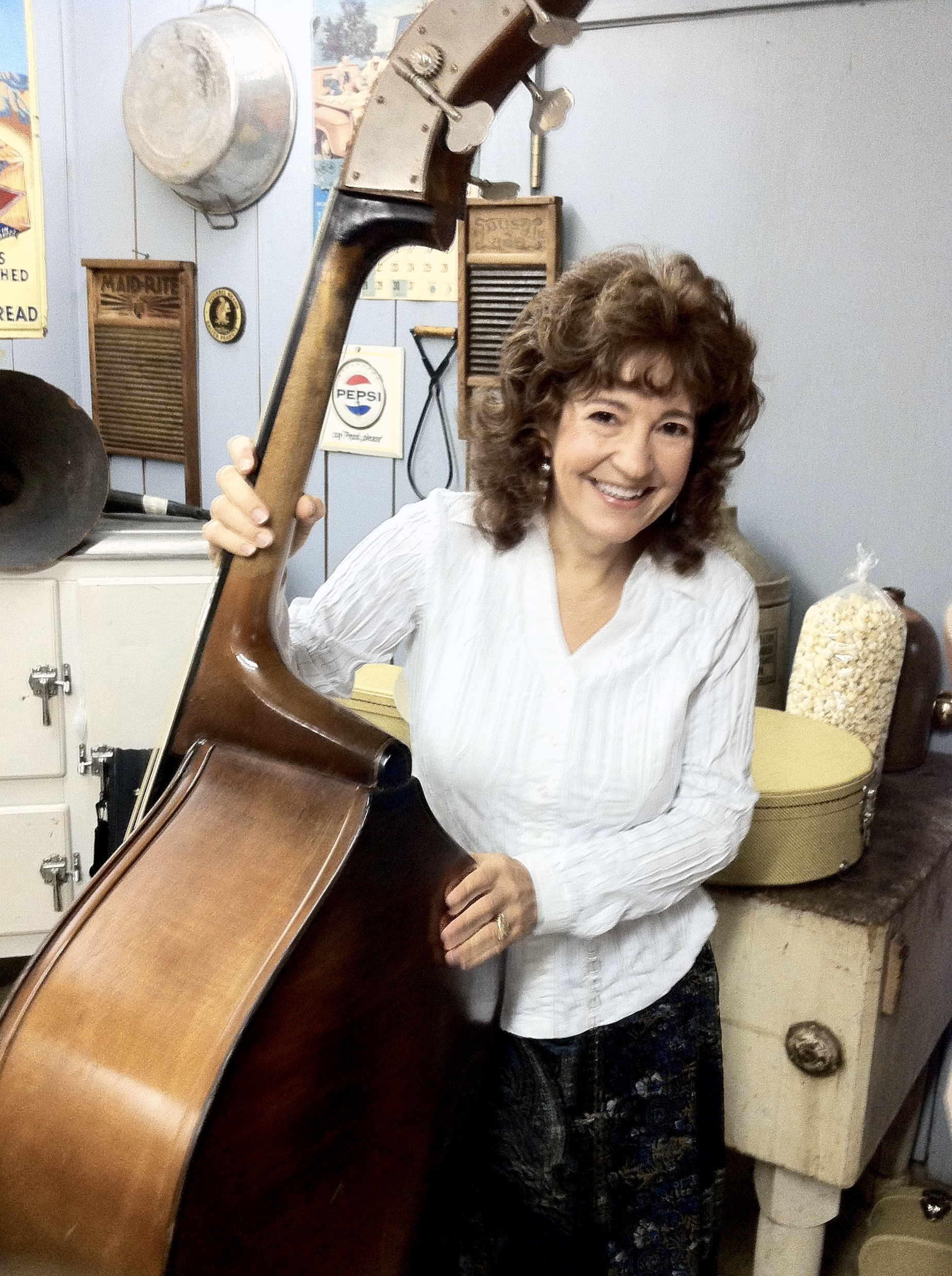 Ruth McLain Smith at the Museum of Appalachia's 2010 Tennessee Fall Homecoming.